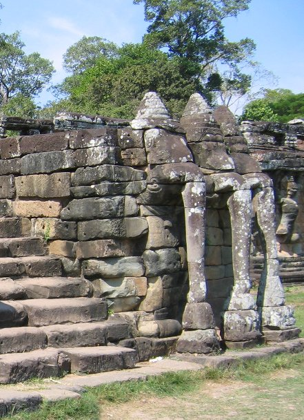 Terrace of the Elephants, Angkor Thom, Cambodia. Photo by Heron, 2004-12-20.